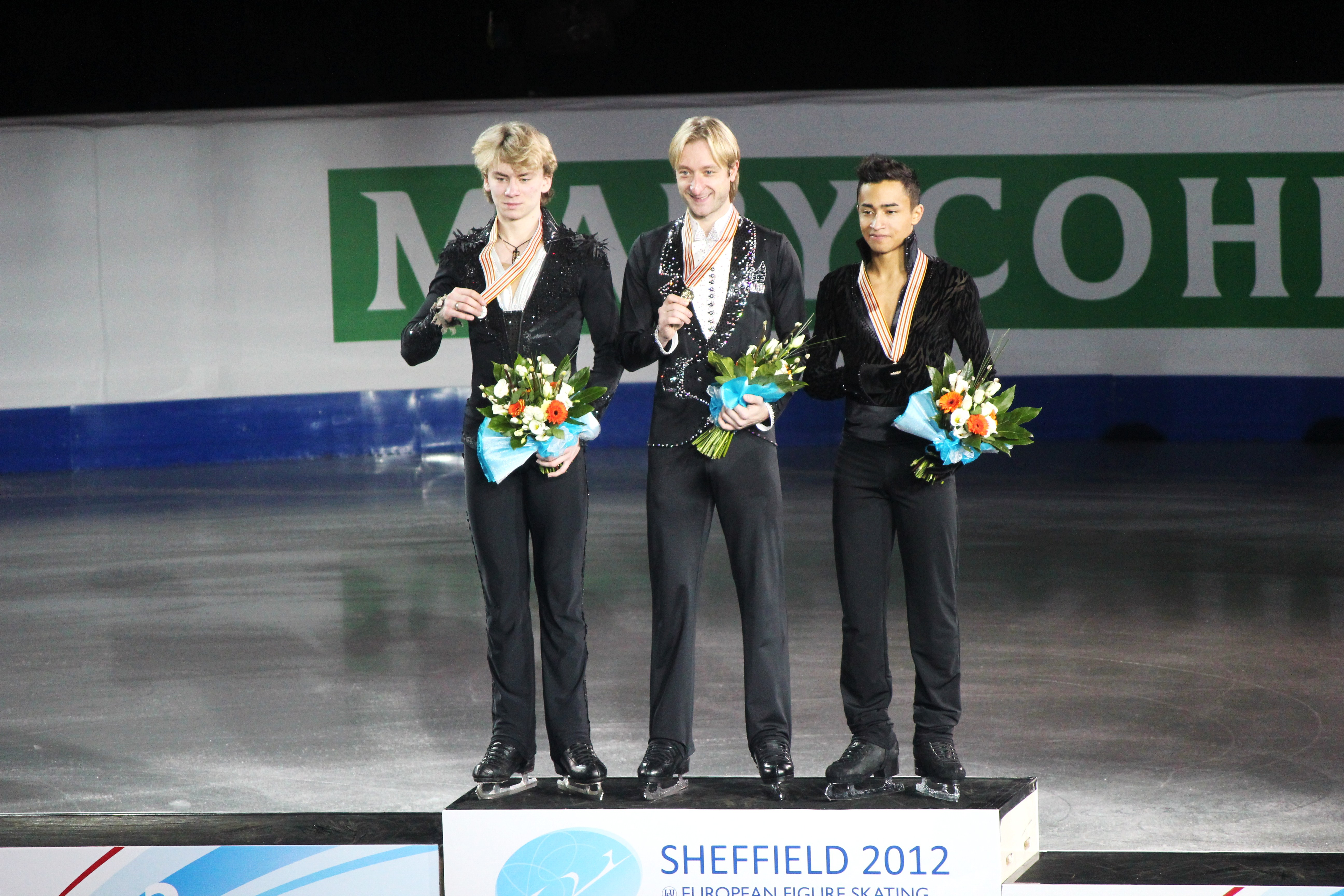 The men medalists at the European Figure Skating Championships 2012